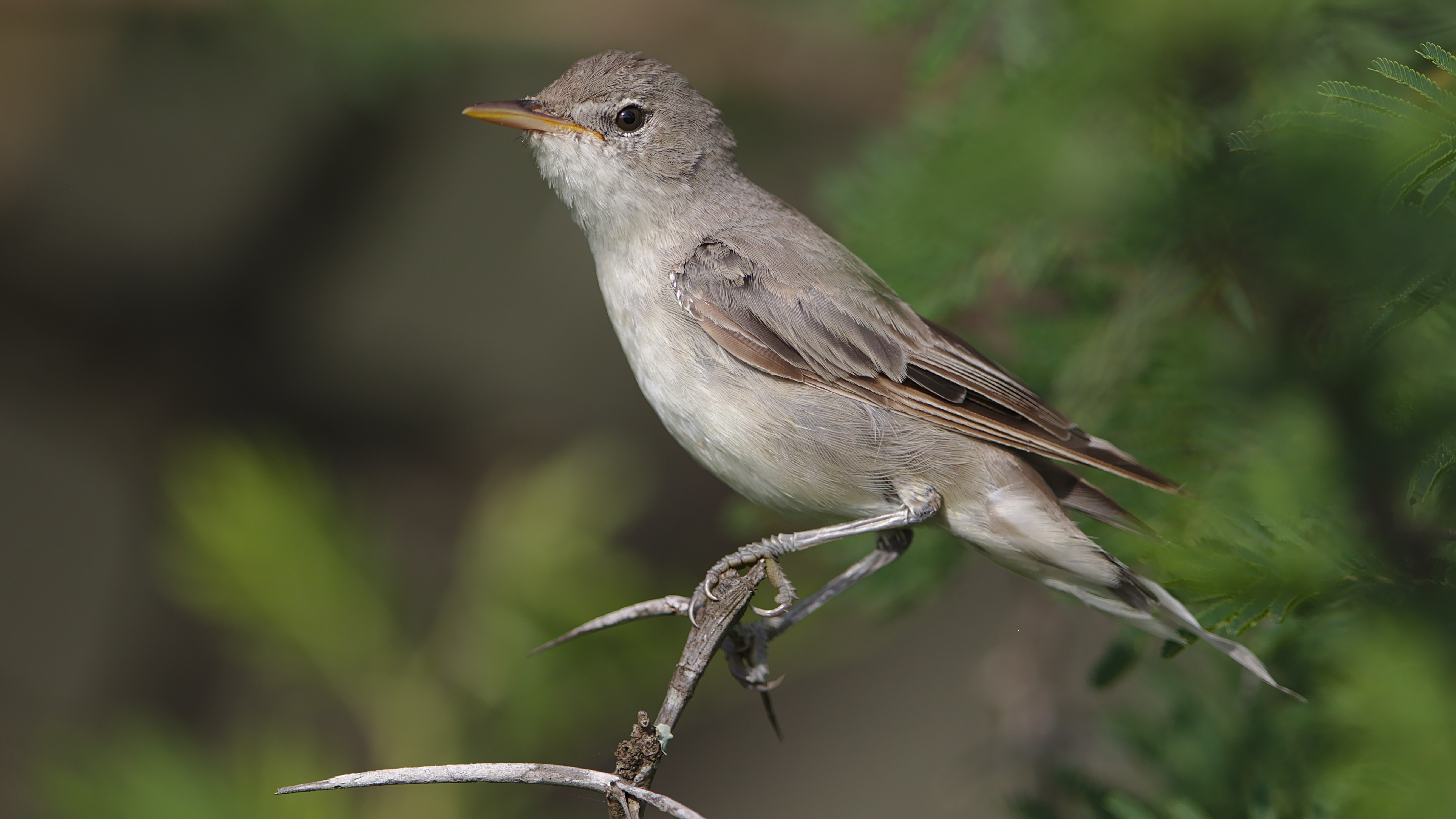 The olive-tree warbler leaves its breeding ground in southern Europe every year, and flies to southern Africa for the northern winter. They are fairly common here, but not very easy to find as they are secretive and don't usually call. A famous location for them is in the dense acacia by the airstrip at Mkuze where these photos were taken.